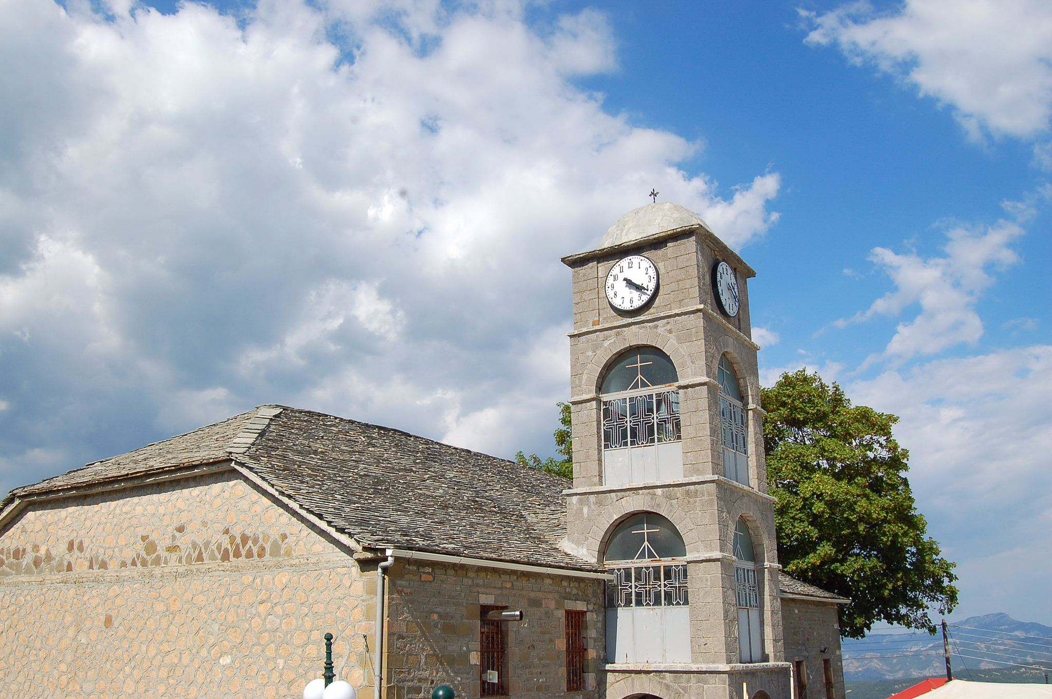 Fourka 441 00, Greece